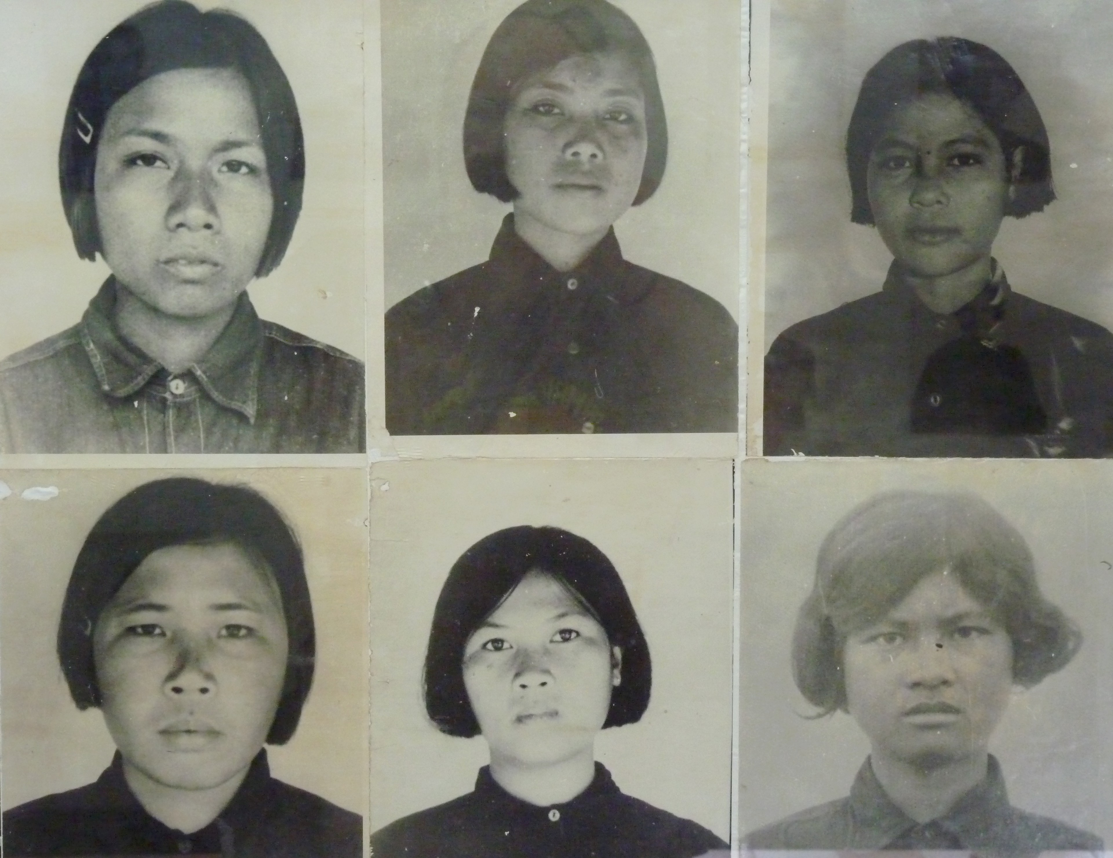 Photos of victims in Tuol Sleng prison